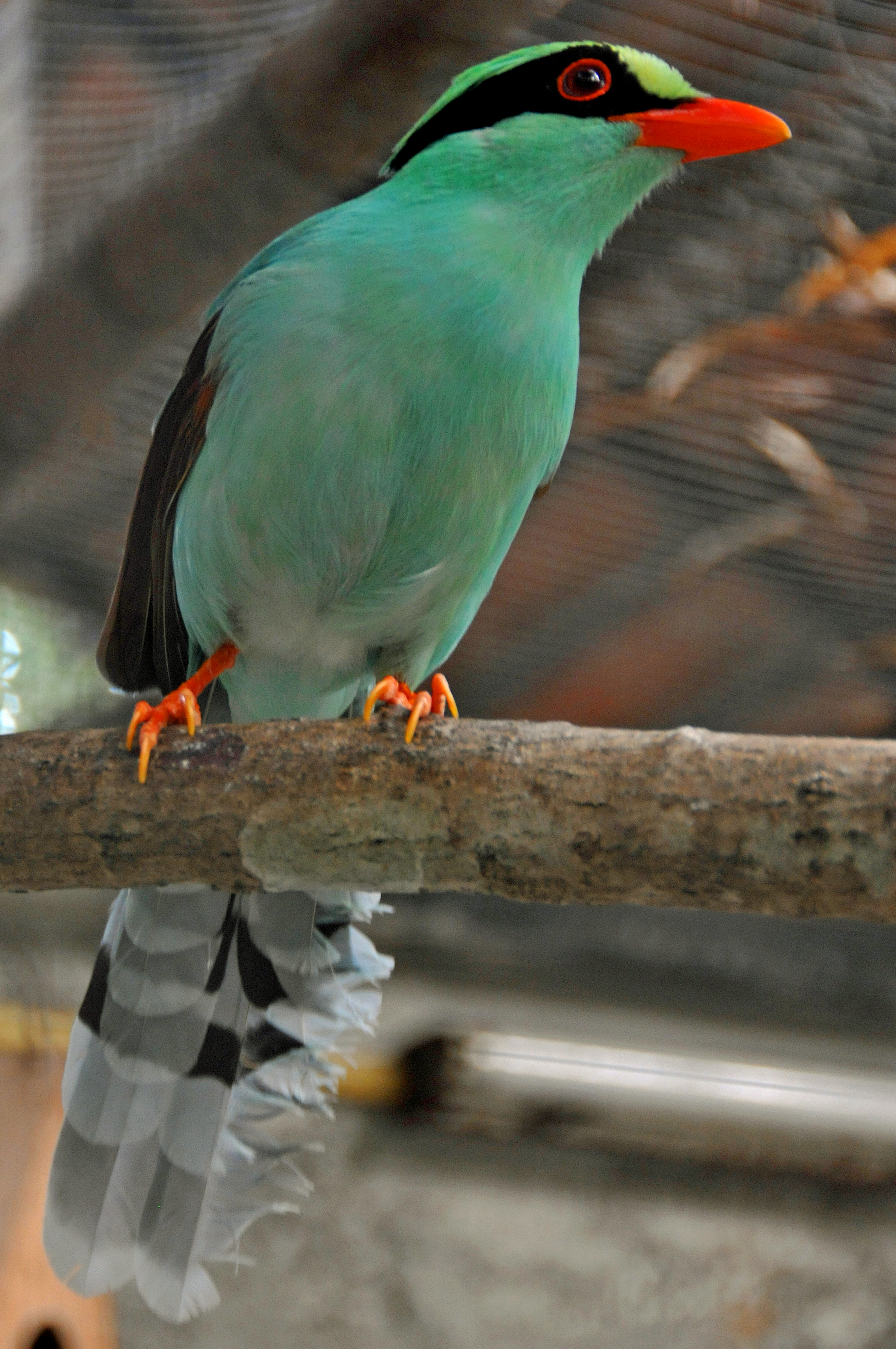 A Green Magpie at Chiang Mai Zoo, Thailand.